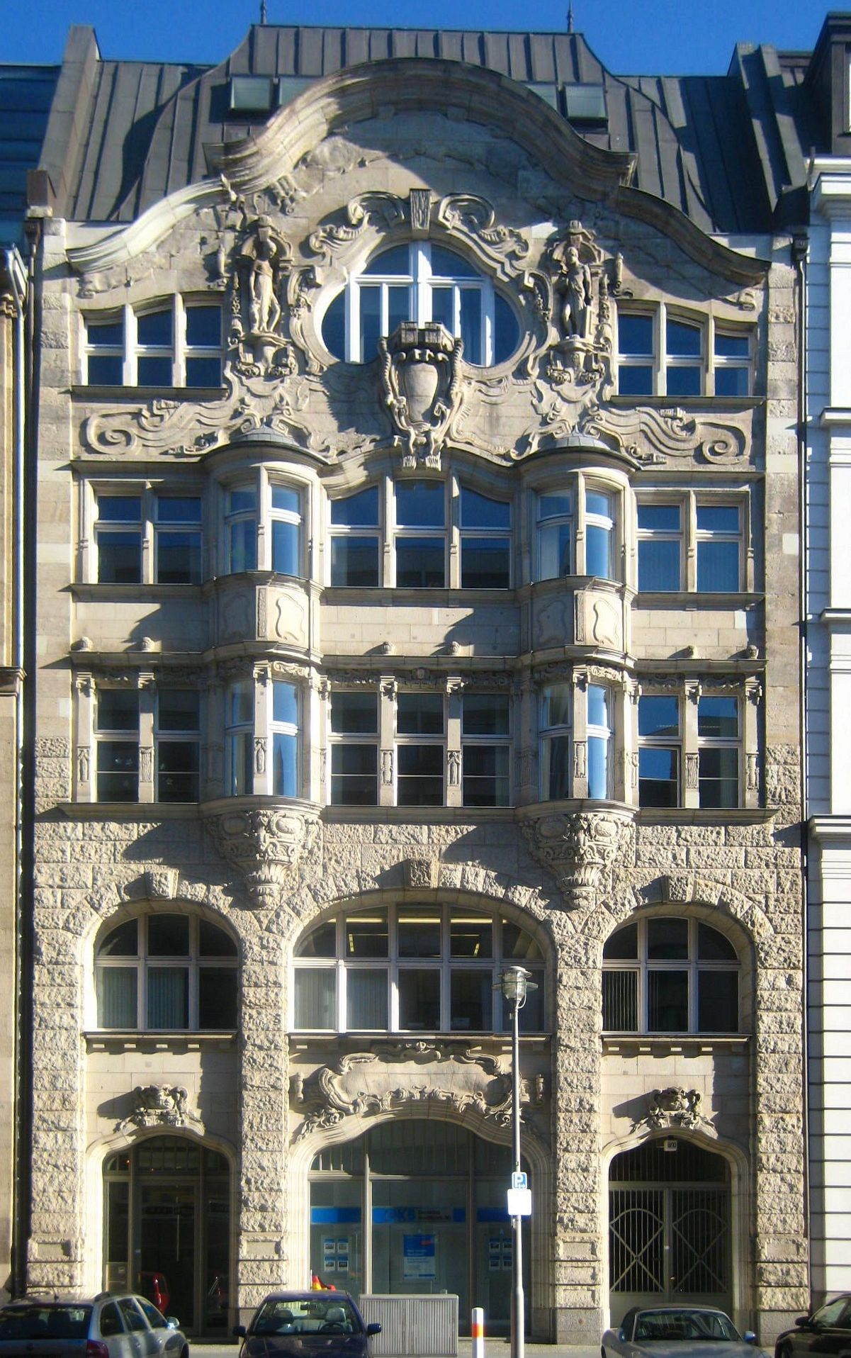 The former Furniture House Trunck & Co. at Kronenstraße No. 10 in Berlin-Mitte, built 1901 to 1902 to a design by the architects Hart & Lesser. The abundance of ornaments on the facade is untypical for commercial buildings in Berlin. The architects mixed elements of Baroque, Rococo, Renaissance and Art Nouveau. In contrast, the room structure follows a functional rationale providing for large storage rooms on the upper floors. The once rich decor of the interior is indicated by the staircase and the representative doors leading to the upper floors. The building has been dedicated a historic landmark.